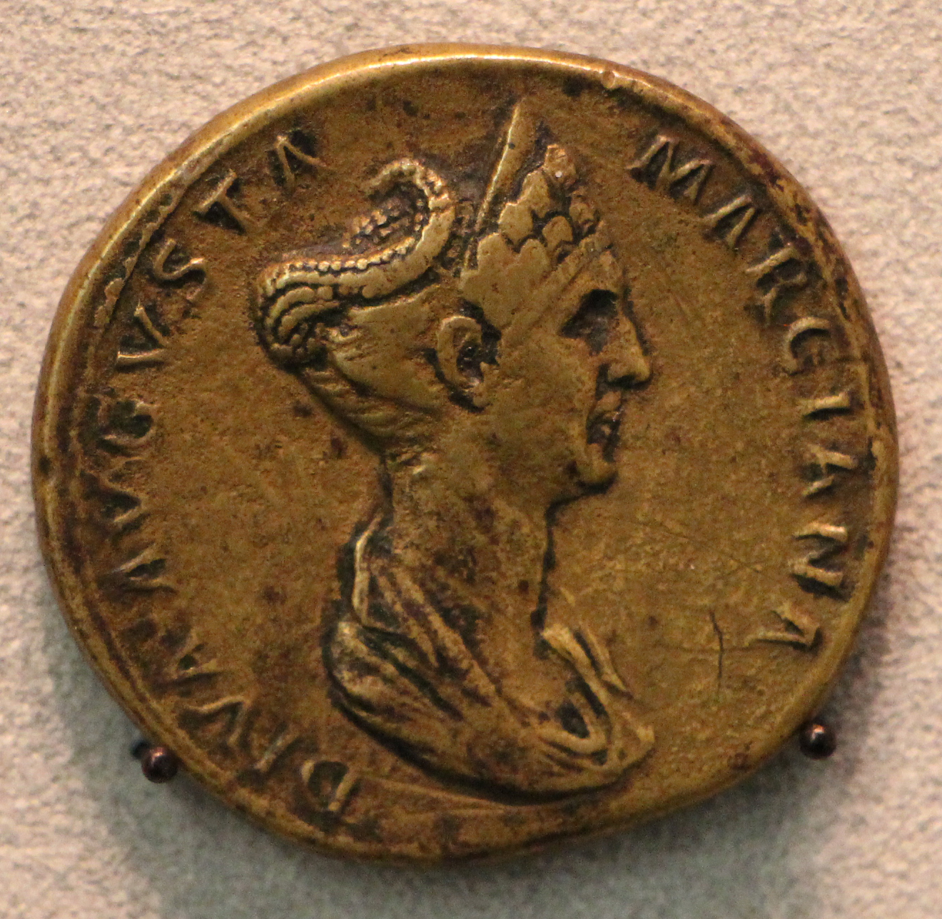 Ancient Roman coins in the Altes Museum Berlin